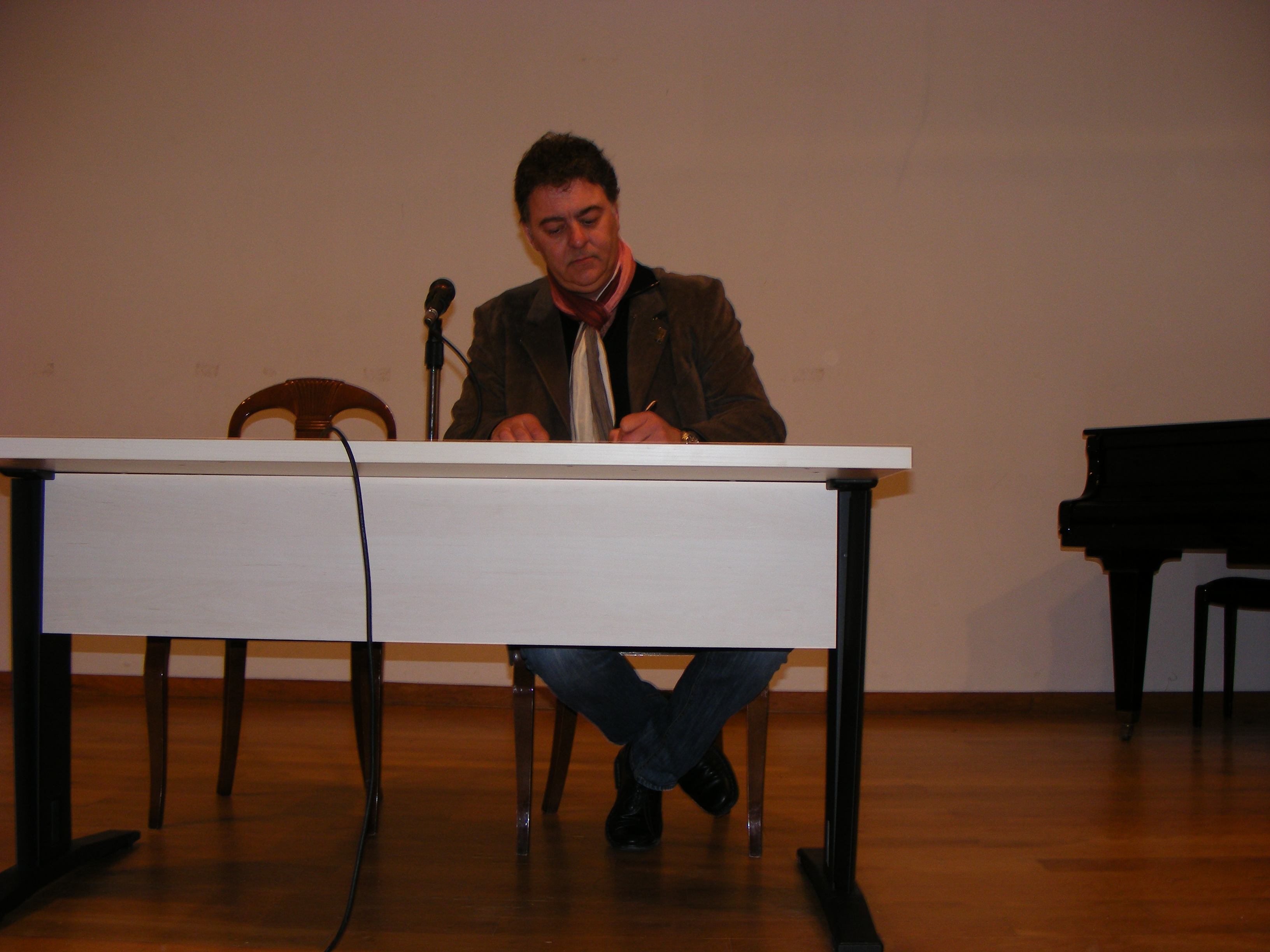 Manuel Portas Galician and Spanish writer in a talk to students of IES A Sangriña en A Guarda, Pontevedra, Galician, Spain.